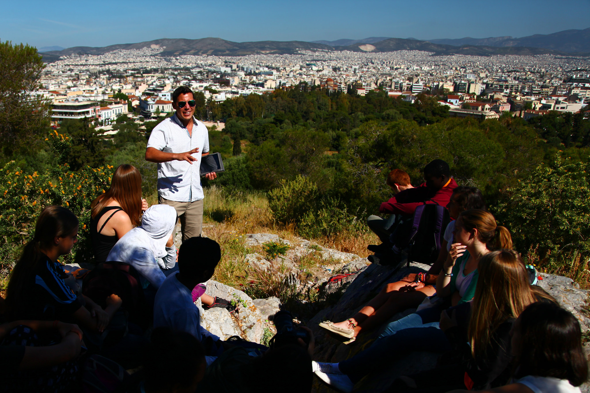 Global Studies teacher Nick Martino holds a class on democracy in Athens, Greece